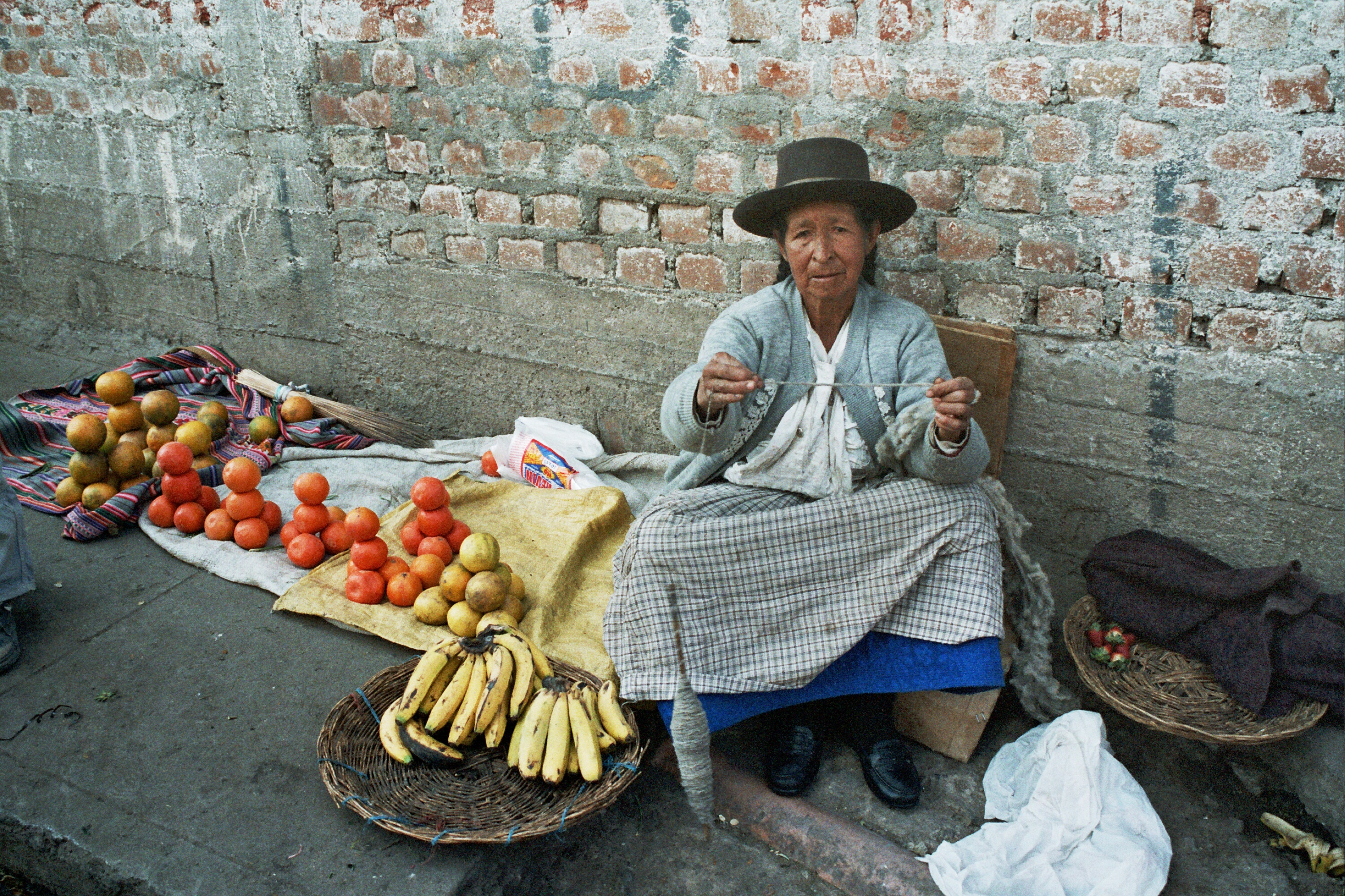 Fruit seller in typical clothing in market in Ayacucho, Peru